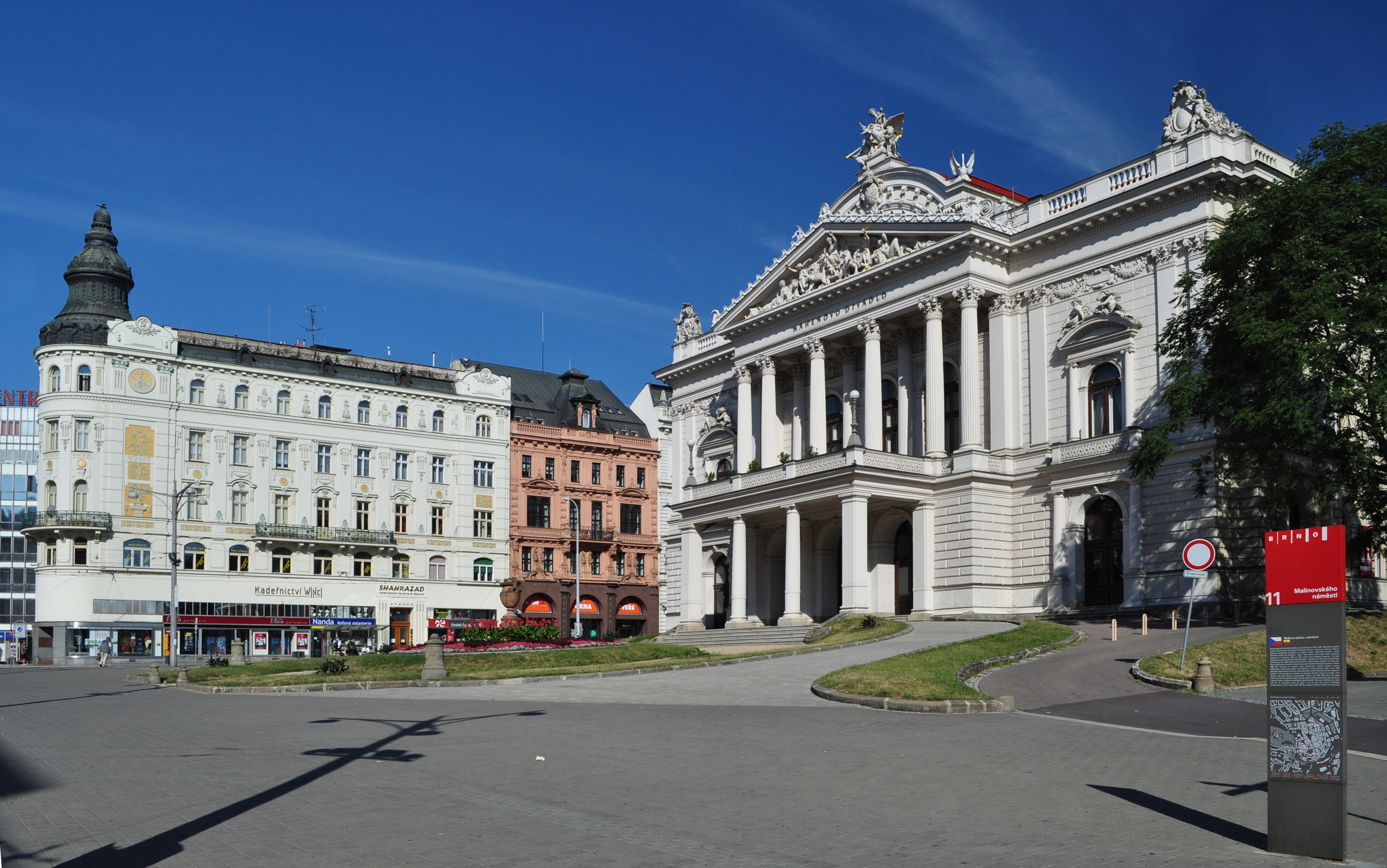 National Theater in Brno, Mahen theater, Brno, Czech Republic